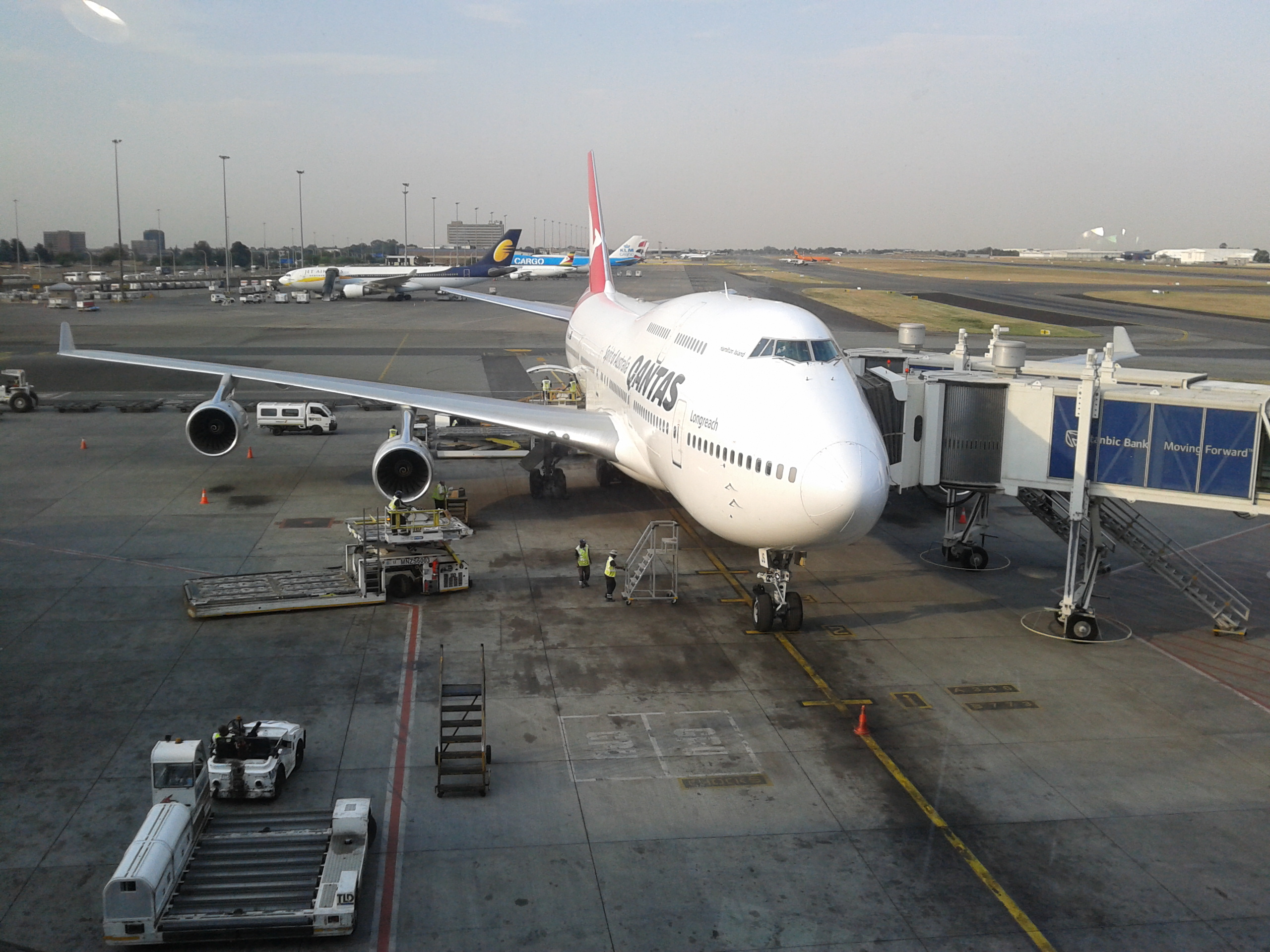 Qantas Boeing 747 after unloading at gate A18, OR Tambo International Airport.